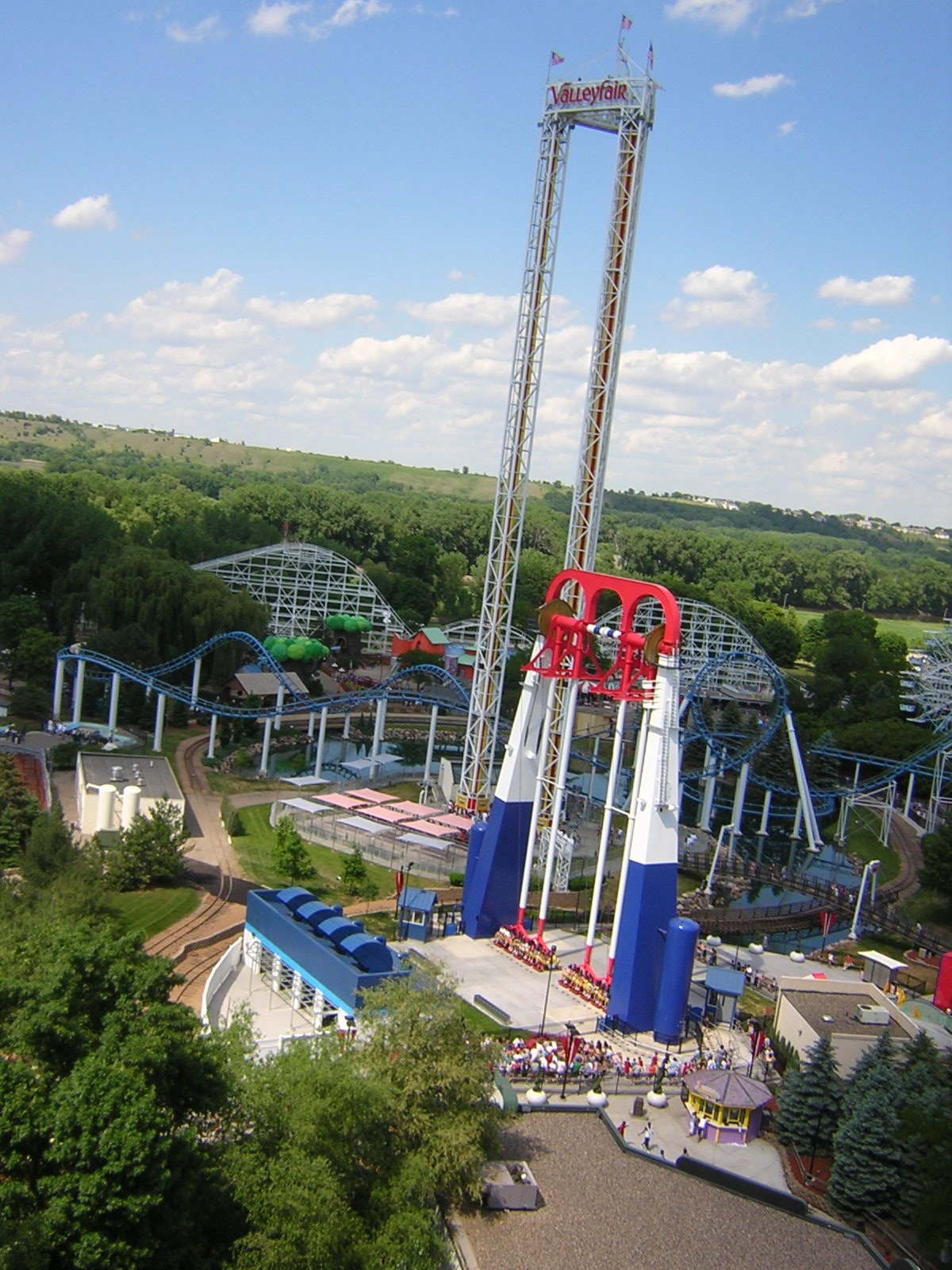 Power Tower,Xtreme Swings and Corkscrew from Wild Thing lift hill at Cedar Fair's Valleyfair! amusement park in Shakopee, Minnesota, USA